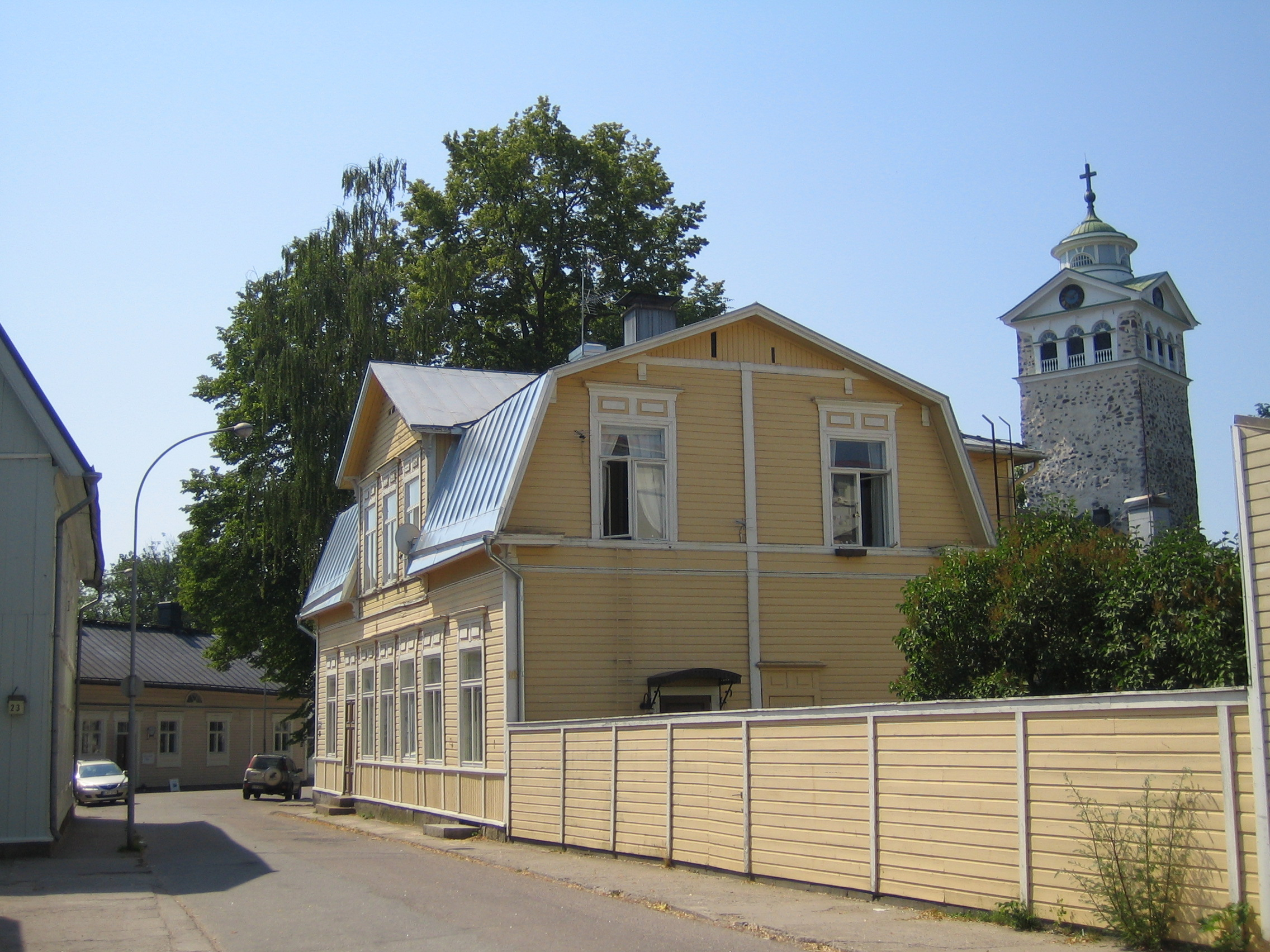 Old town, Ekenäs, Finland.